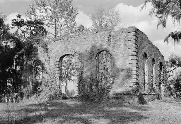 Biggin Church (Ruins), Cooper River, West Branch, Moncks Corner vicinity (Berkeley County, South Carolina)